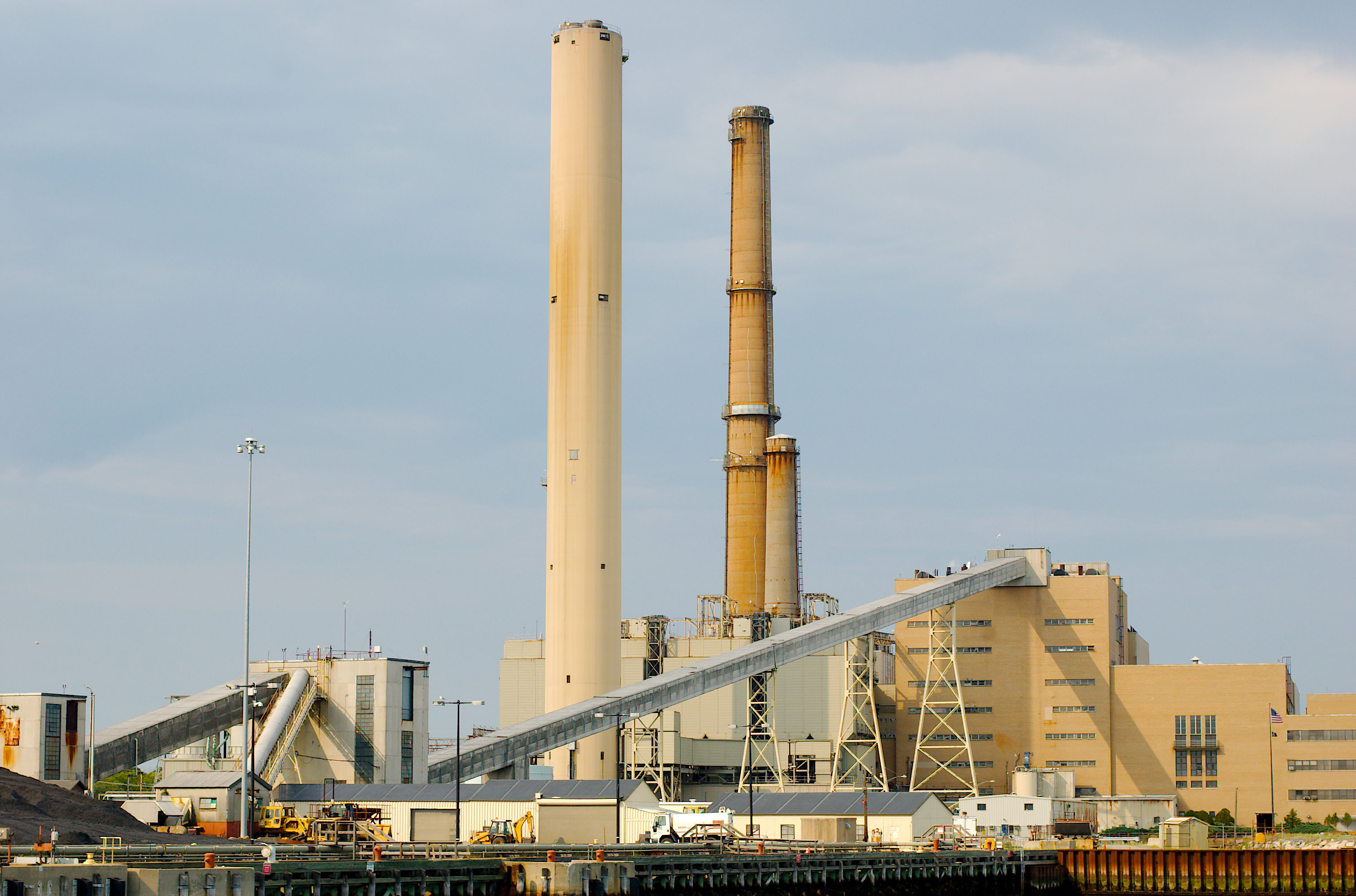 Visible at left, a mound of coal is moved by a series of conveyors to the boiler area at this power plant in Massachusetts. As of 2015, the stack were destroyed and the harbor no longer looks like this.